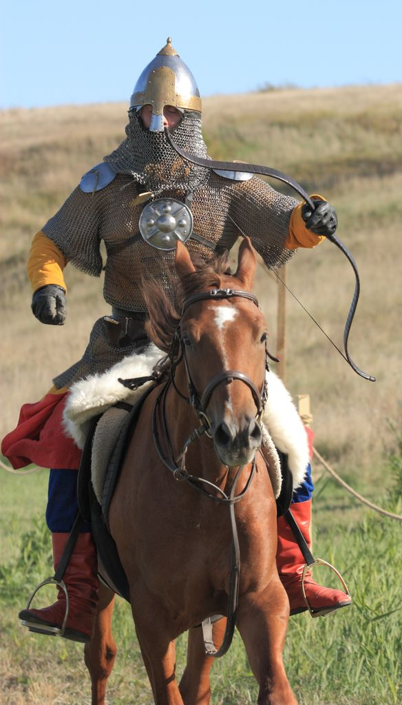 Kulikovo